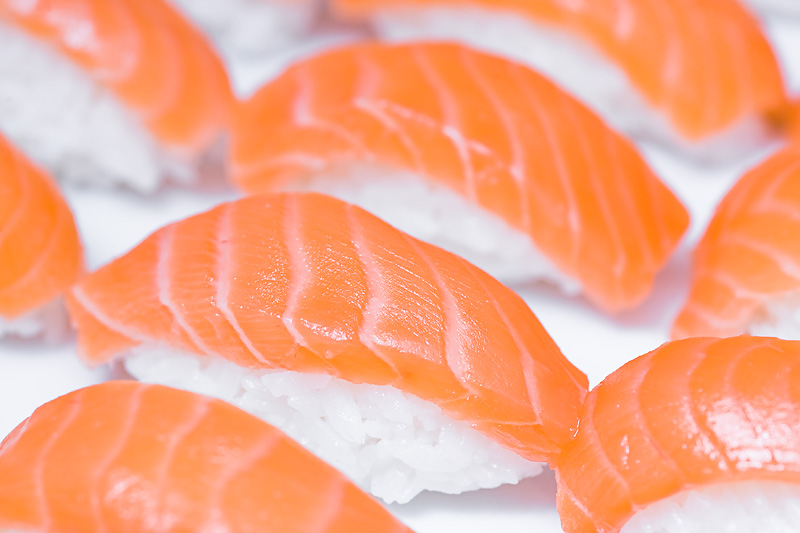 Close-up of nigiri sushi with salmon.